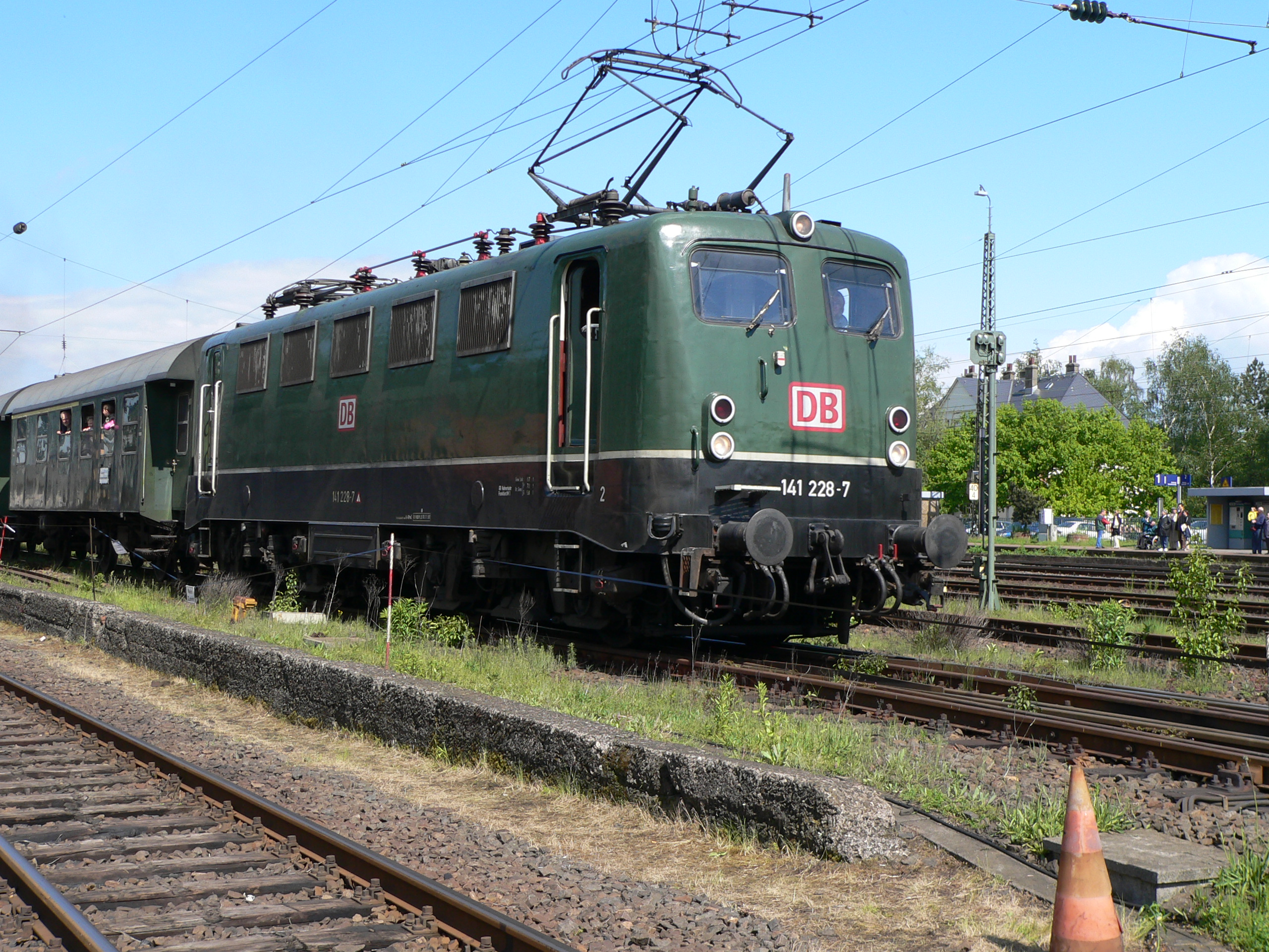 Electric locomotive german class 141/E41 "Knallfrosch" (jumping cracker) in Kranichstein, Germany